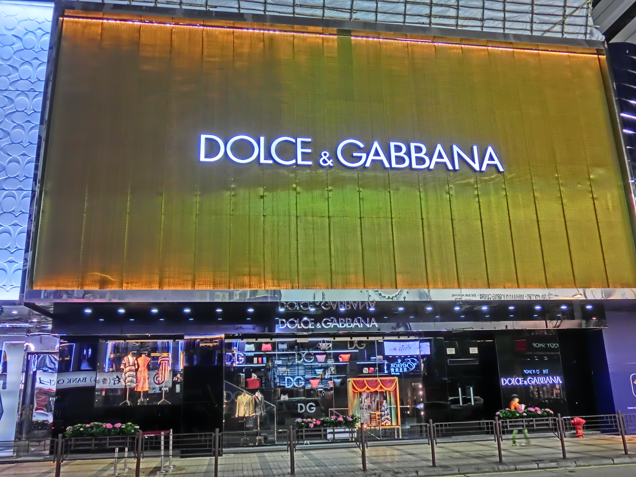 Dolce & Gabbana, Shop in Harbour City, Canton Road, Tsim Sha Tsui, Hong Kong